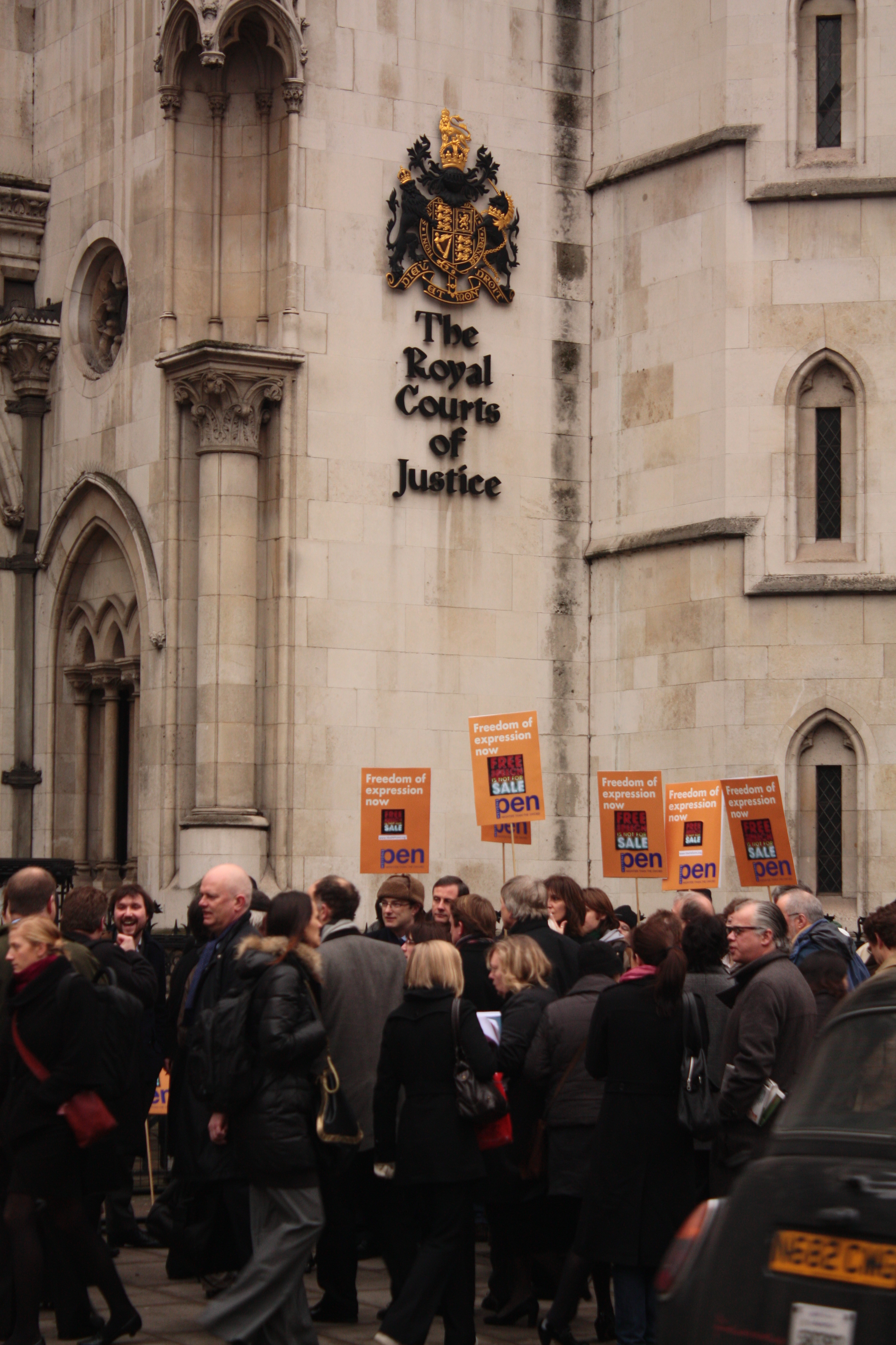 A demonstration in support of science writer Simon Singh, at the Royal Courts of Justice, 23rd February 2010. (Photo: Robert Sharp / English PEN)